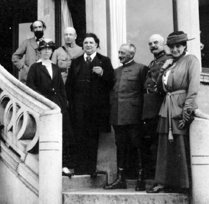 Elisabeth of Bavaria (1876-1965) (left), Eugène Ysaÿe (1858-1931), Claire Croiza (1882-1946) (right) in May/June 1916.